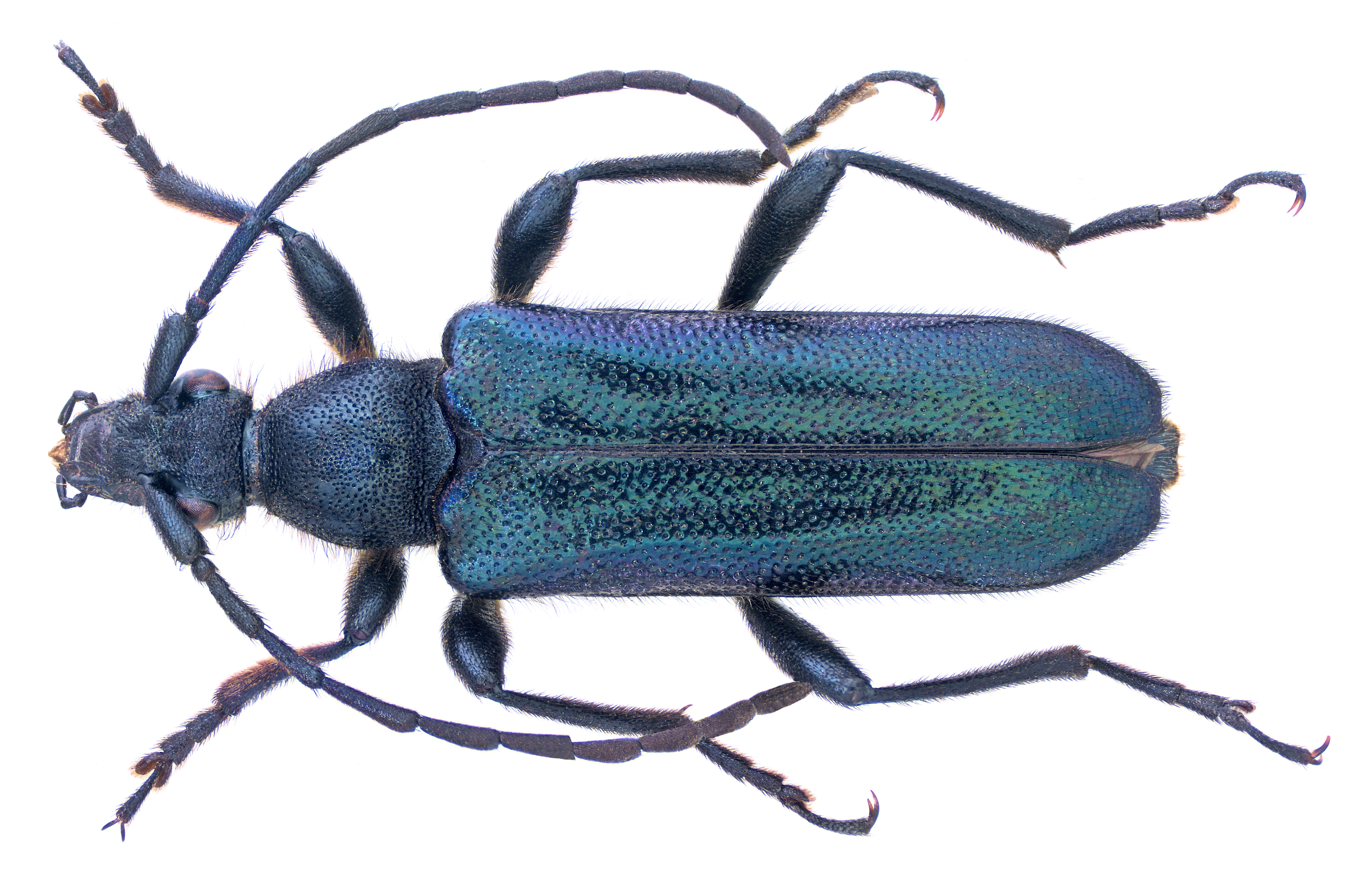 Family: Cerambycidae Size: 13.5 mm Origin: Russia, China, Mongolia, Koree, Japan Location: Russia, Far East, South Ussuri region, Zanadvorovka vic. leg. S.Kunitzin, VI.2002; det. A.Weigel, 2017 Photo: U.Schmidt, 2017